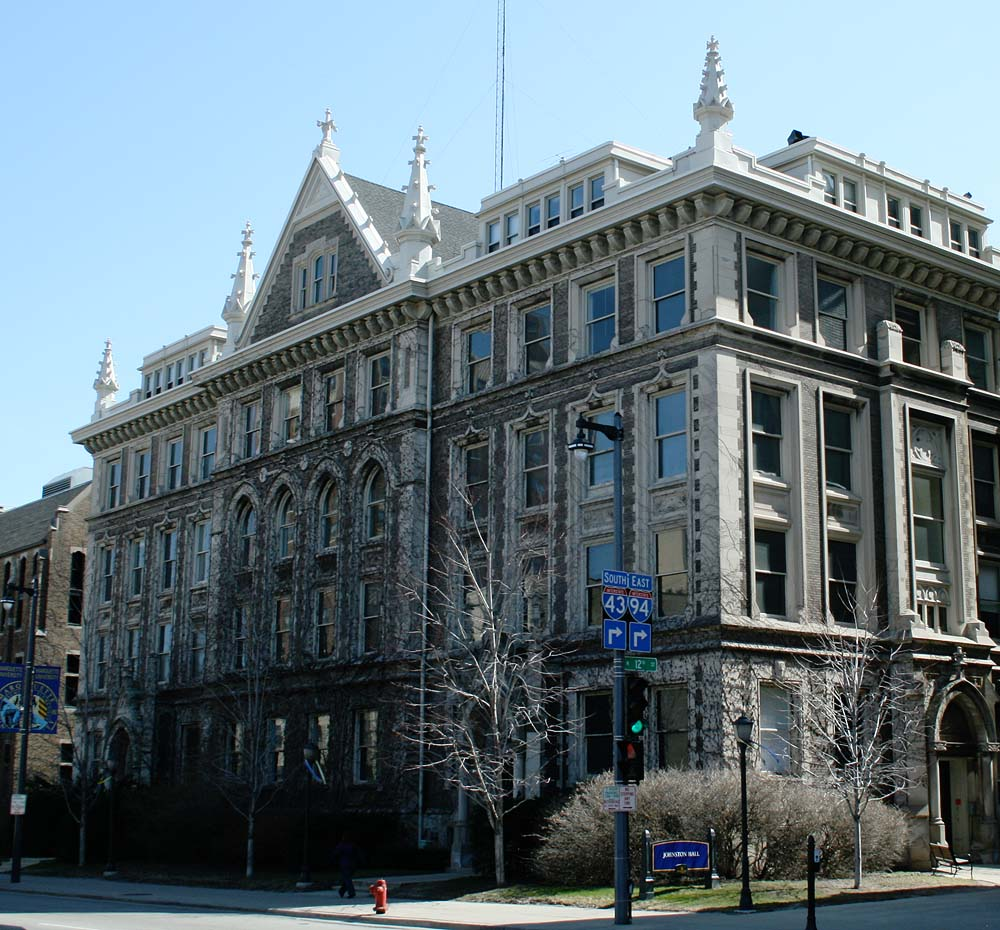 Johnston Hall, on the campus of Marquette University, Milwaukee, Wisconsin, National Register of Historic Places.